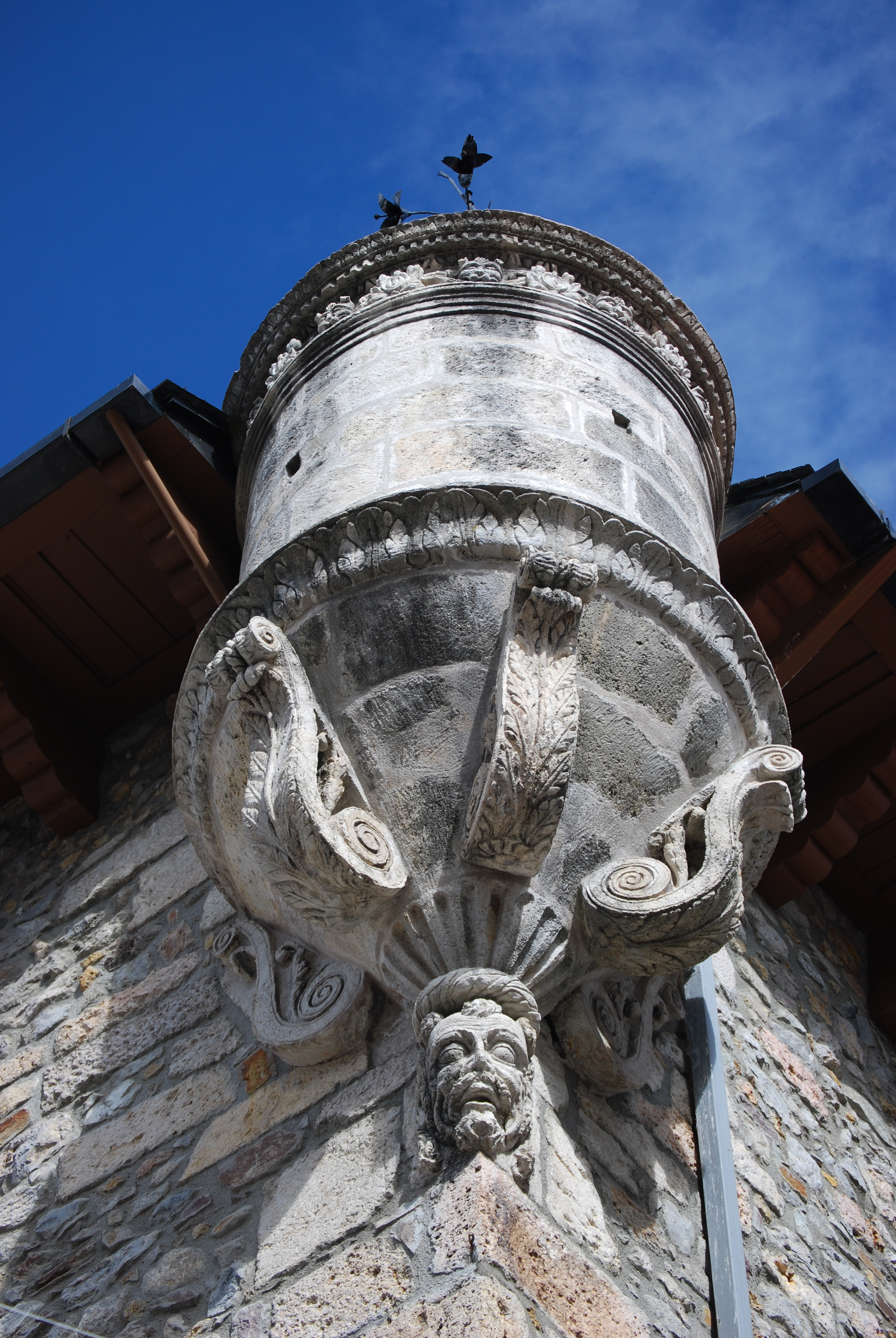 Detail of the city hall of Bielsa, Spain